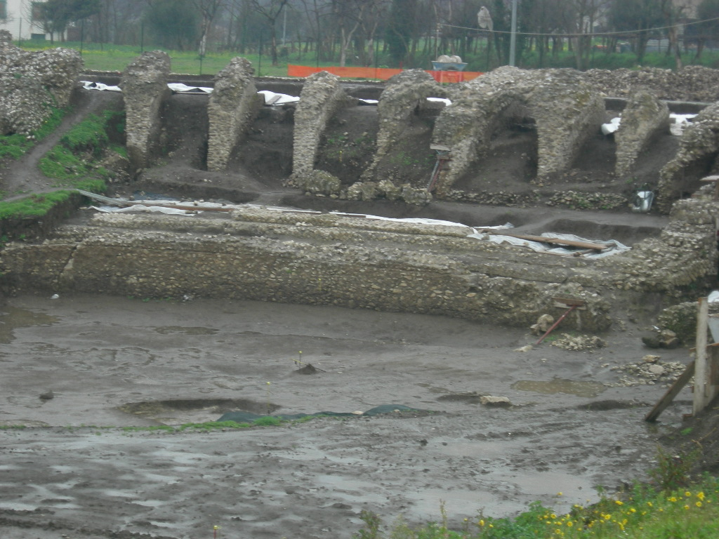 Remains of the amphitheater in San Salvatore Telesino